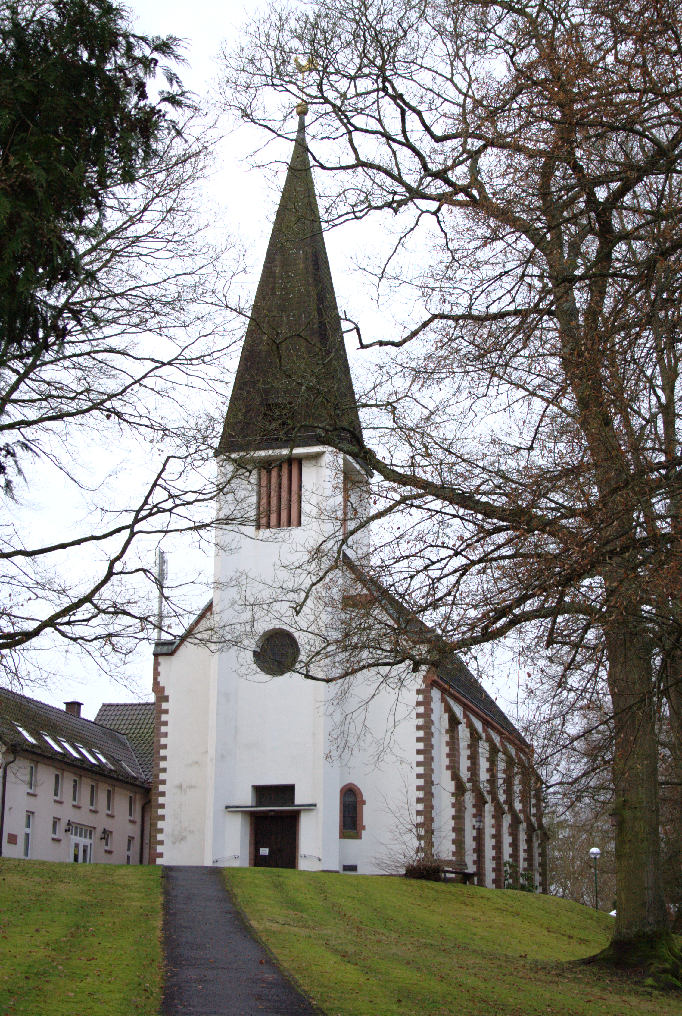 Protestant Church in Bad Salzschlirf, Hesse, Germany.